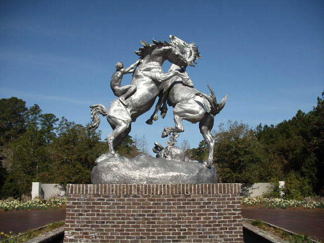 " - sculpture by Anna Hyatt Huntington, at Brookgreen Gardens, South Carolina.